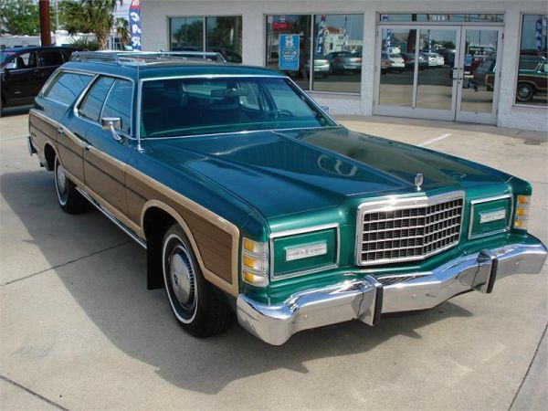 Front view of a 1978 Ford Country Squire station wagon